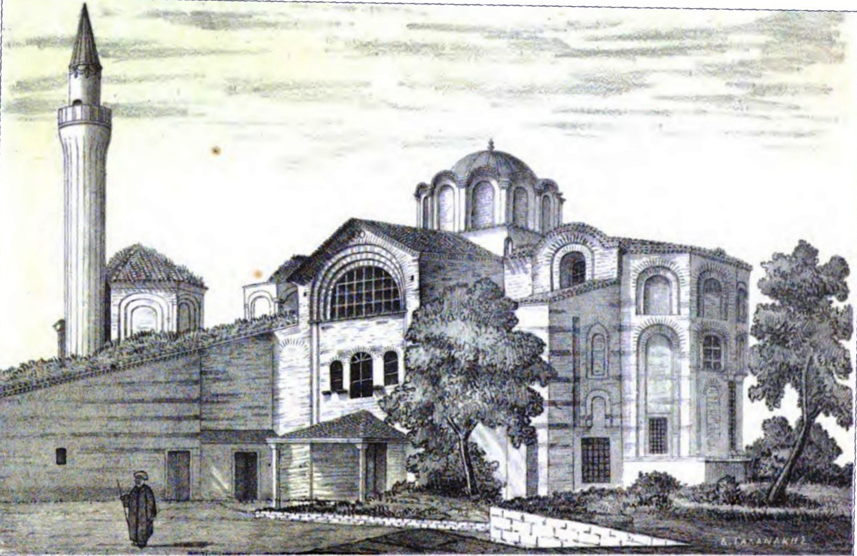 Byzantinai meletai topographikai (1877) Author: Paspatēs, Alexandros Geōrgiou, 1814-1891. [from old catalog] Subject: Inscriptions, Greek Year: 1877 Possible copyright status: NOT_IN_COPYRIGHT Language: English Digitizing sponsor: Google Book contributor: Oxford University Collection: europeanlibraries